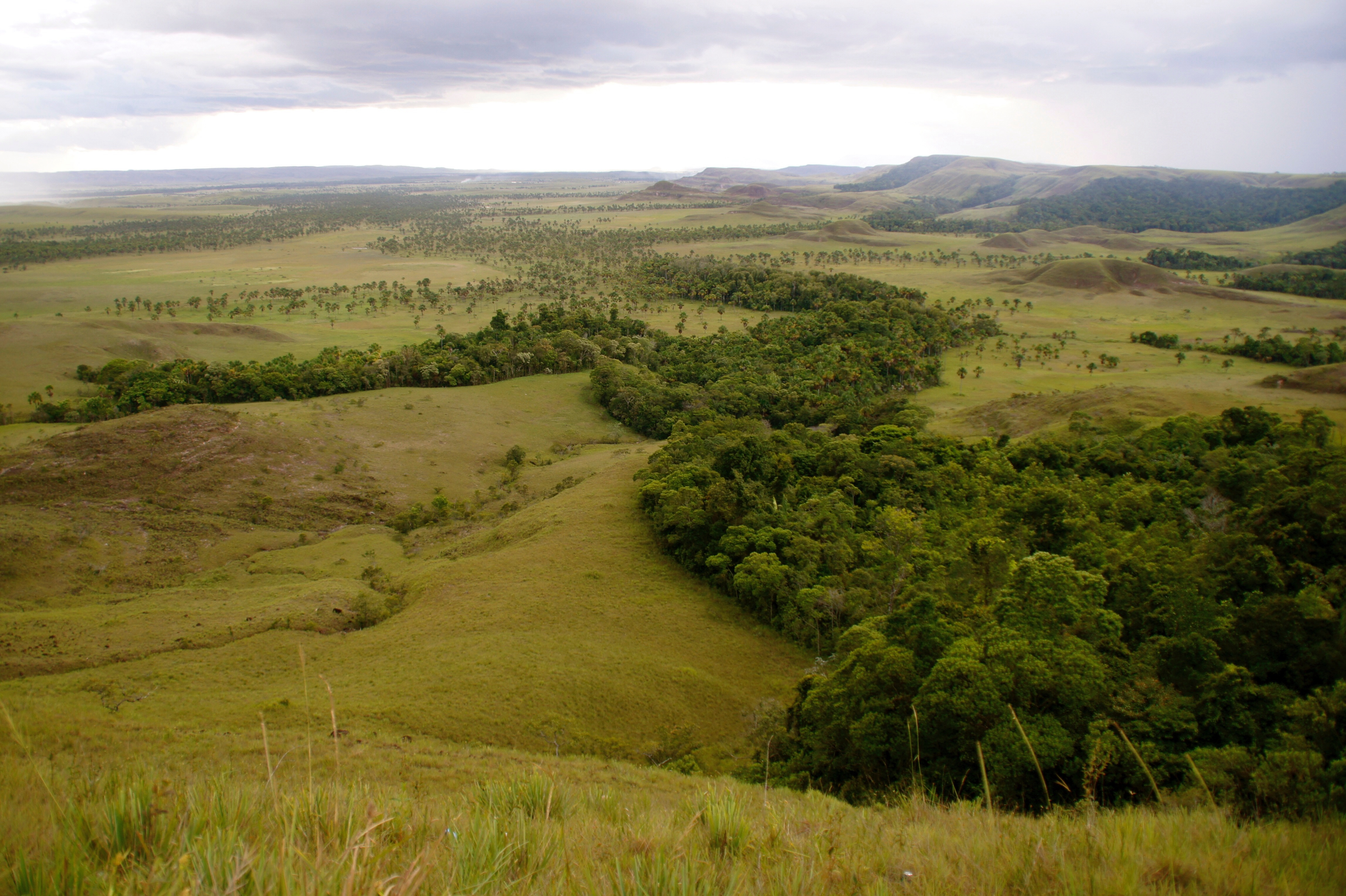 A vista from the Roraima side towards Brazil